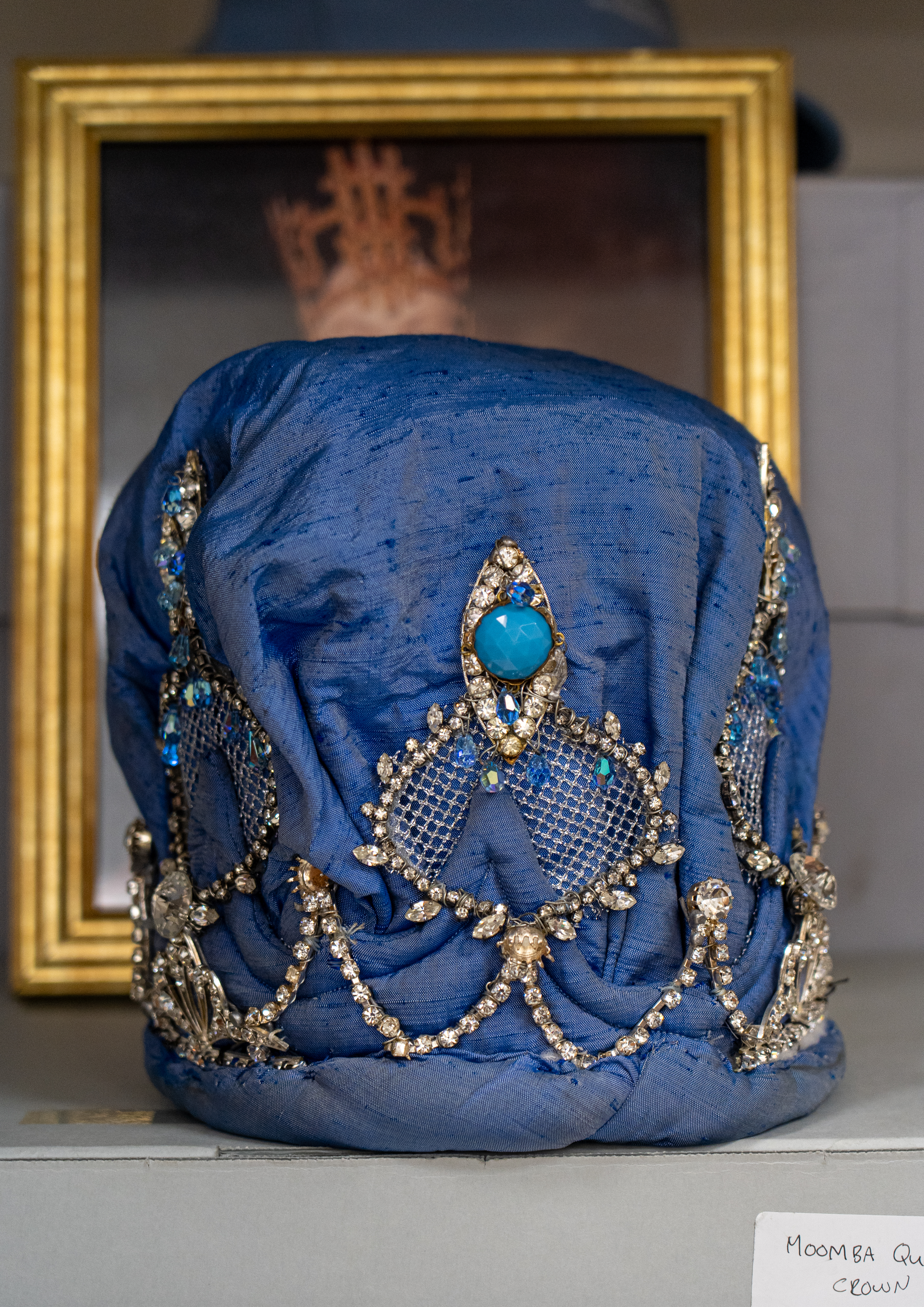 A crown worn by the Queen of Moomba festival, 1980s. Held in the City of Melbourne Art and Heritage Collection.